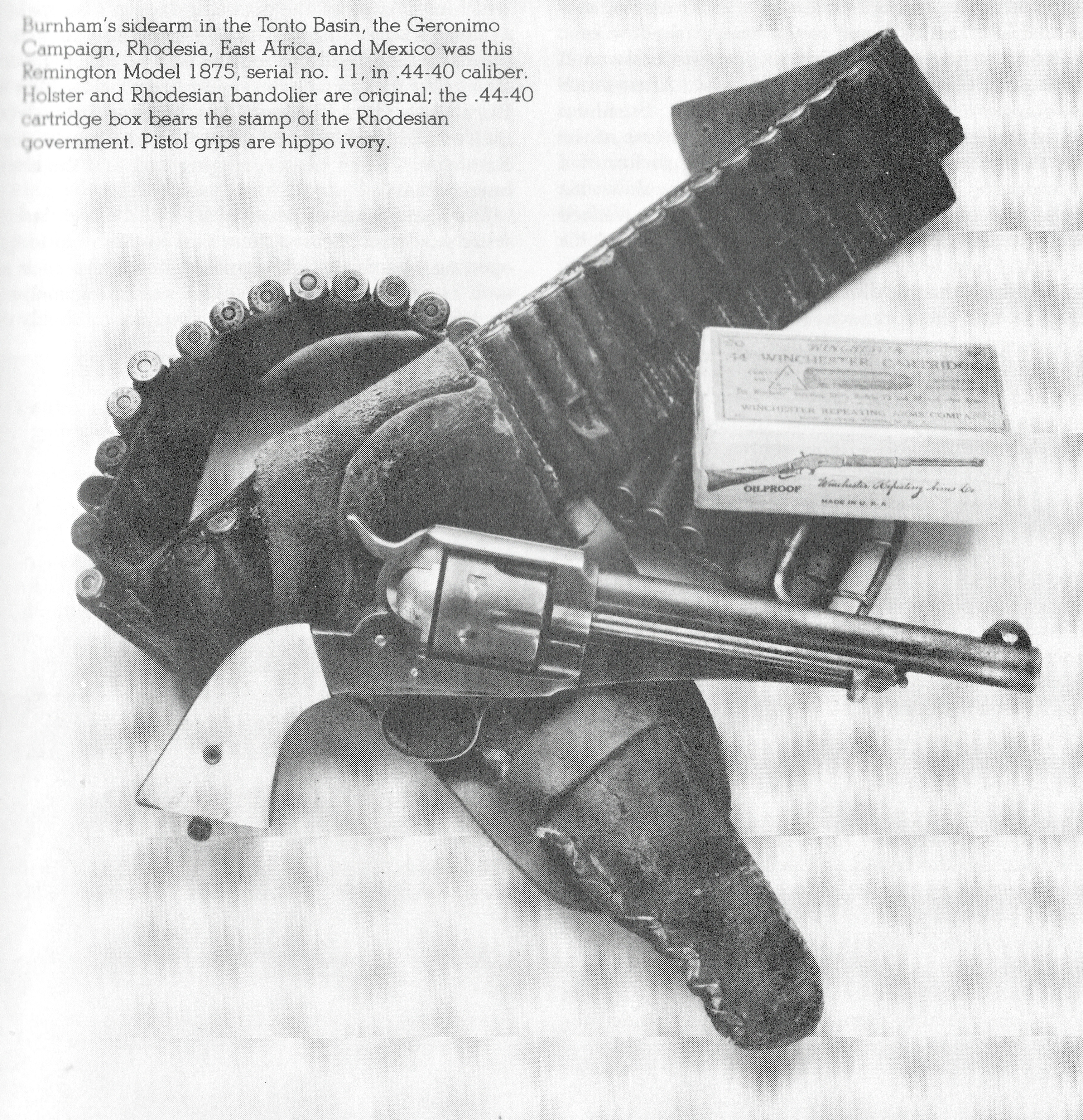 Frederick Russell Burnham sidearm, a six-shooter he purchased while still a teenager in Prescott, Arizona and kept throughout his life. Caption reads: Burnham's sidearm in the Tonto Basin, the Geronimo Campaign, Rhodesia, East Africa, and Mexico was this Remington Model 1875, serial no. 11, in .44-40 caliber. Holster and Rhodesian bandolier are original; the .44-40 cartridge box bears the stamp of the Rhodesian government. Pistol grips are hippo ivory.